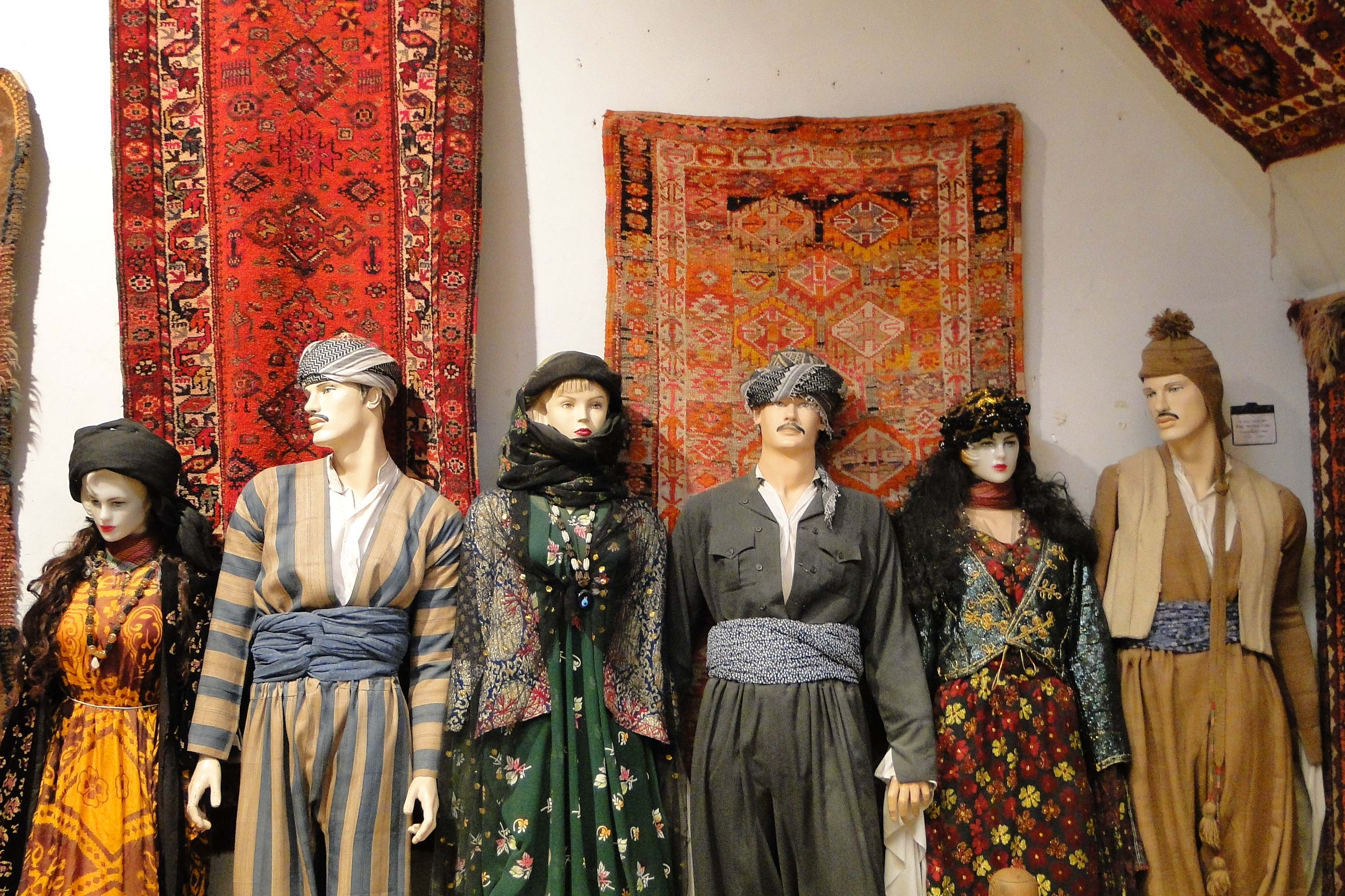 Kurdish Costumes on Display - Kurdish Textile Museum - Erbil - Iraq